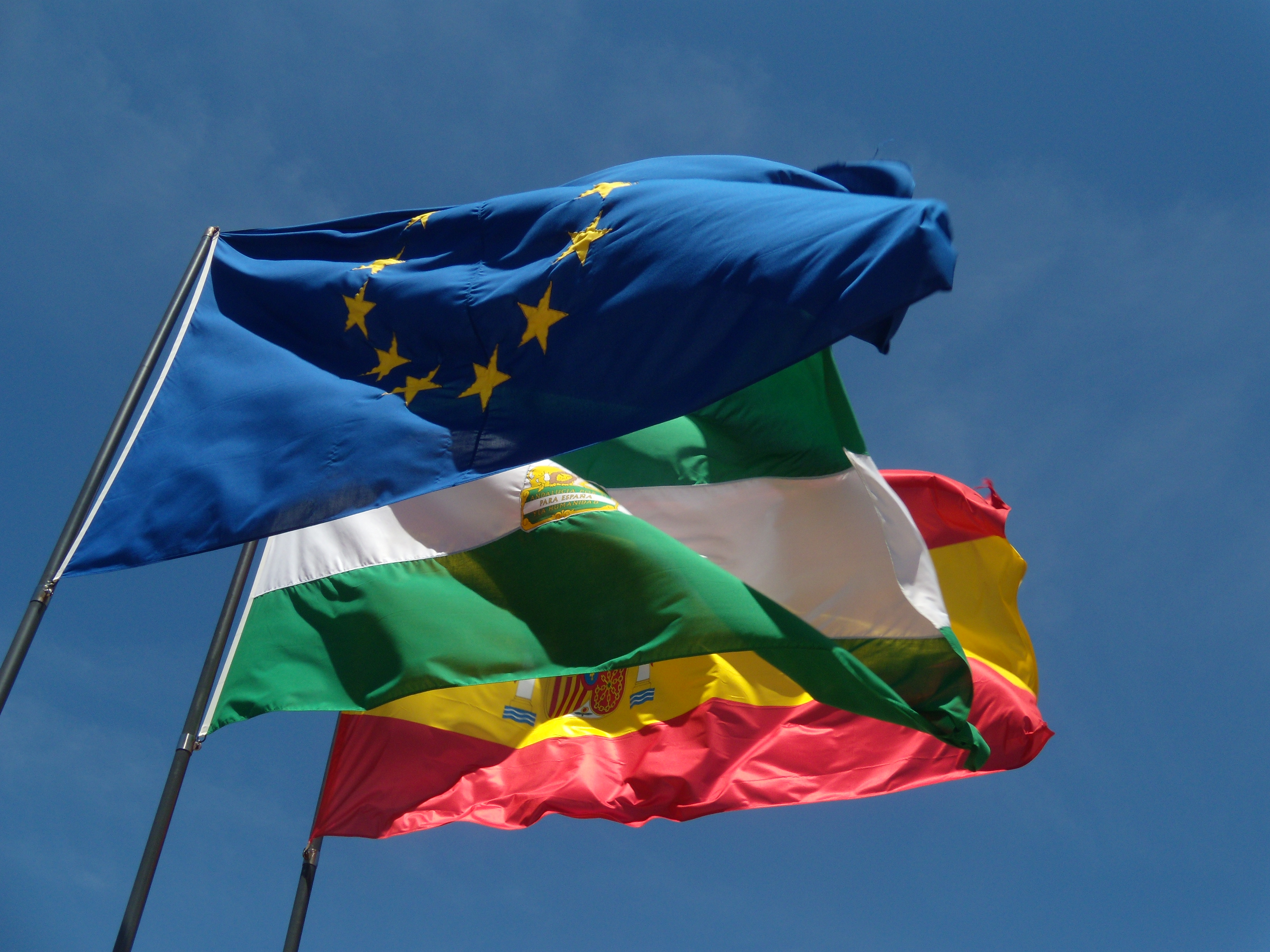 Flags of Europe, Andalusia and Spain in Granada (Spain)